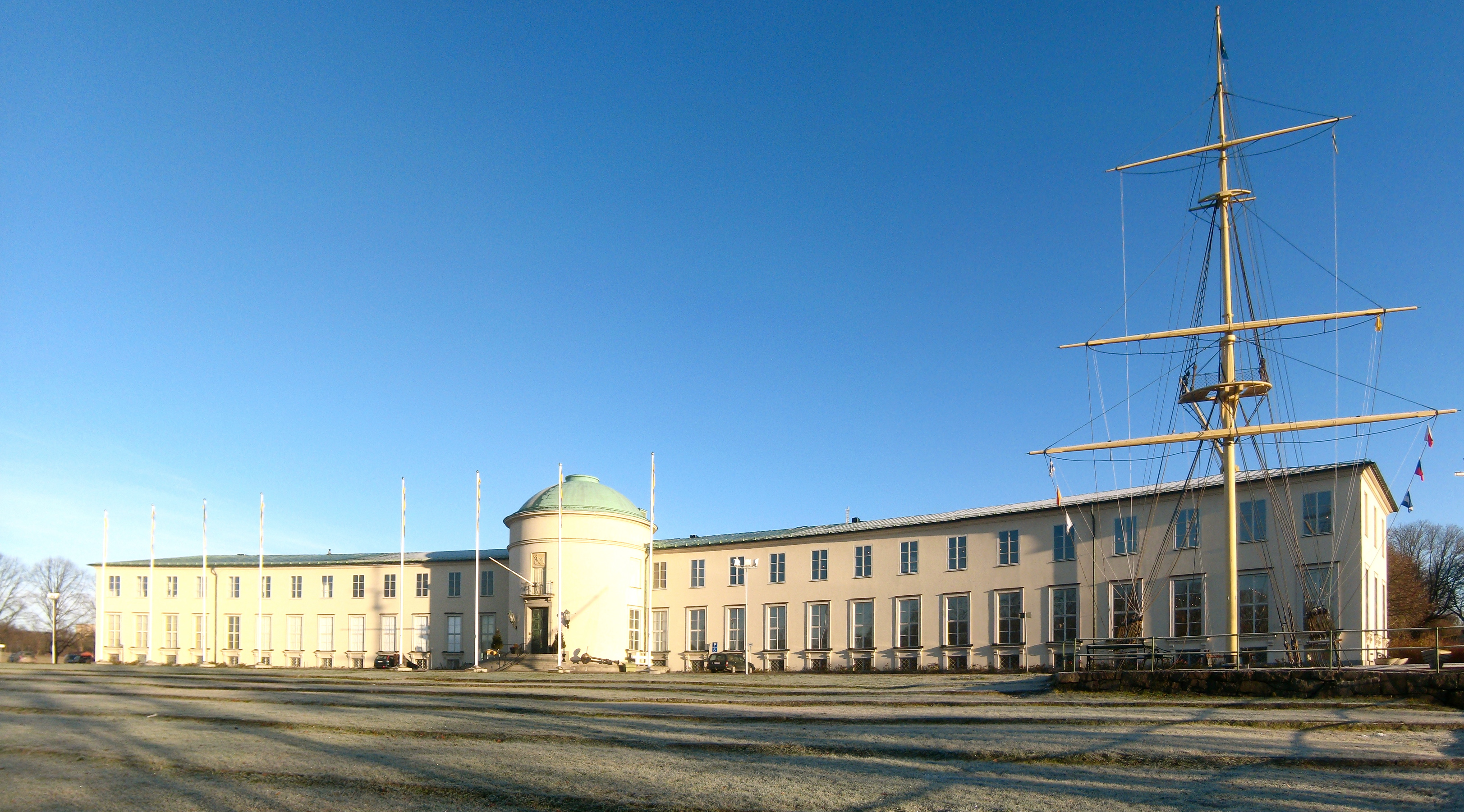 Sjöhistoriska museet